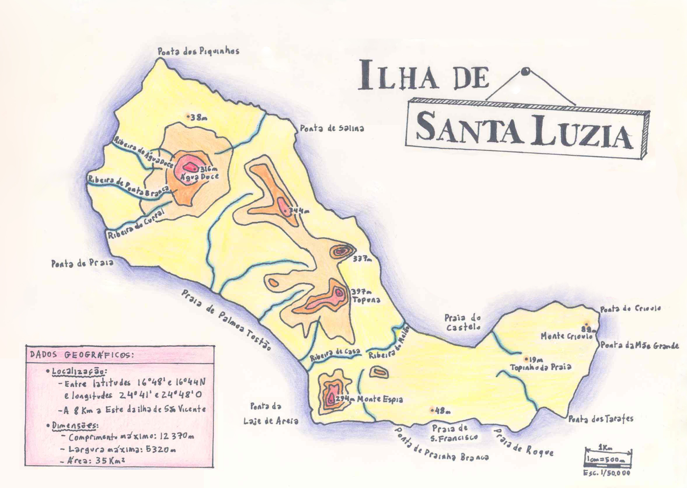 Map made by hand of Santa Luzia Island, Cape Verde, from several other smaller maps.